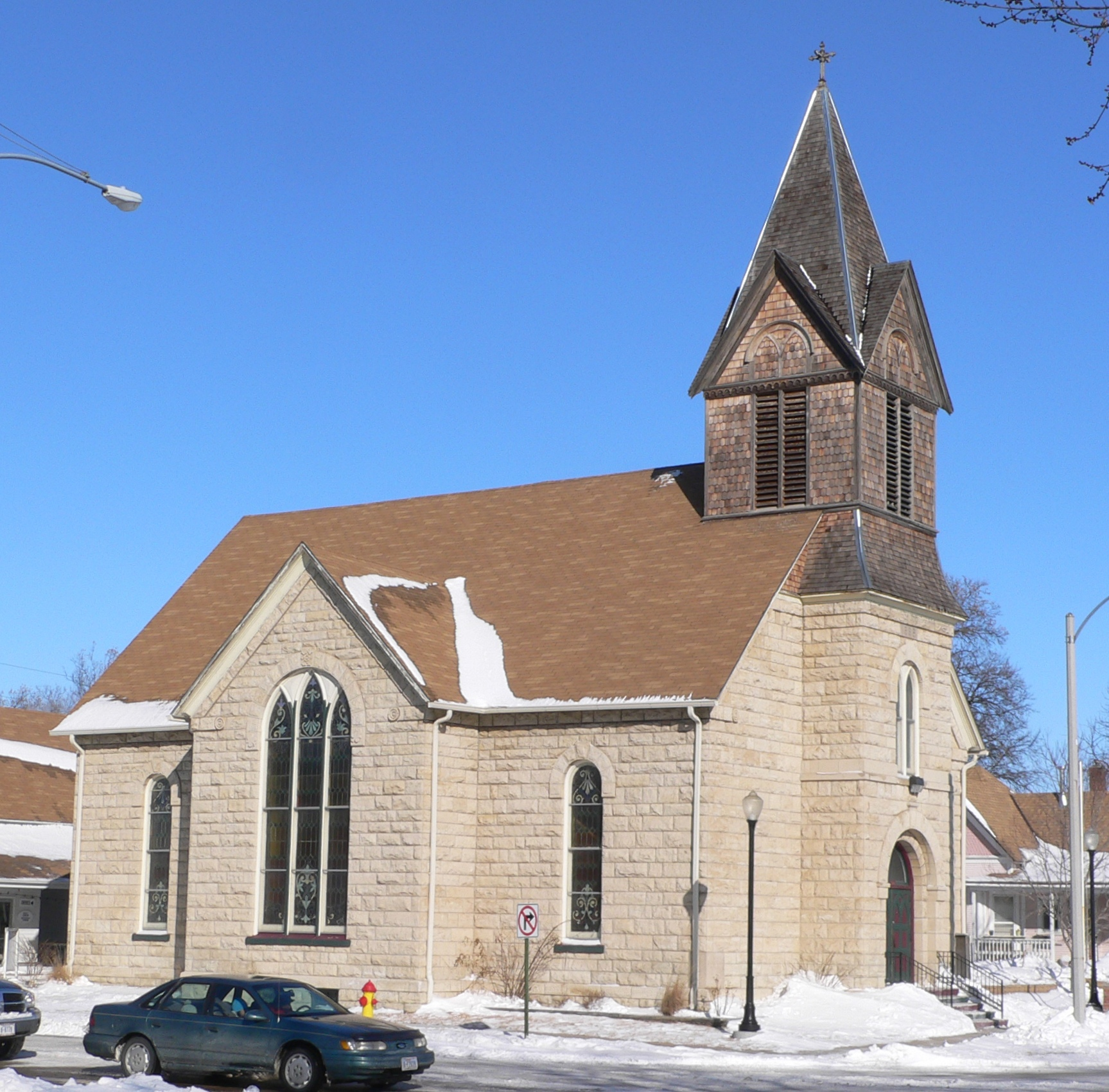 Evangelical Lutheran Trinity Church at 512 E. 2nd St, Grand Island, Nebraska; seen from the southwest. The building was constructed in 1894 by William and Joseph Scheffel, in Romanesque Revival style. It is listed in the National Register of Historic Places.